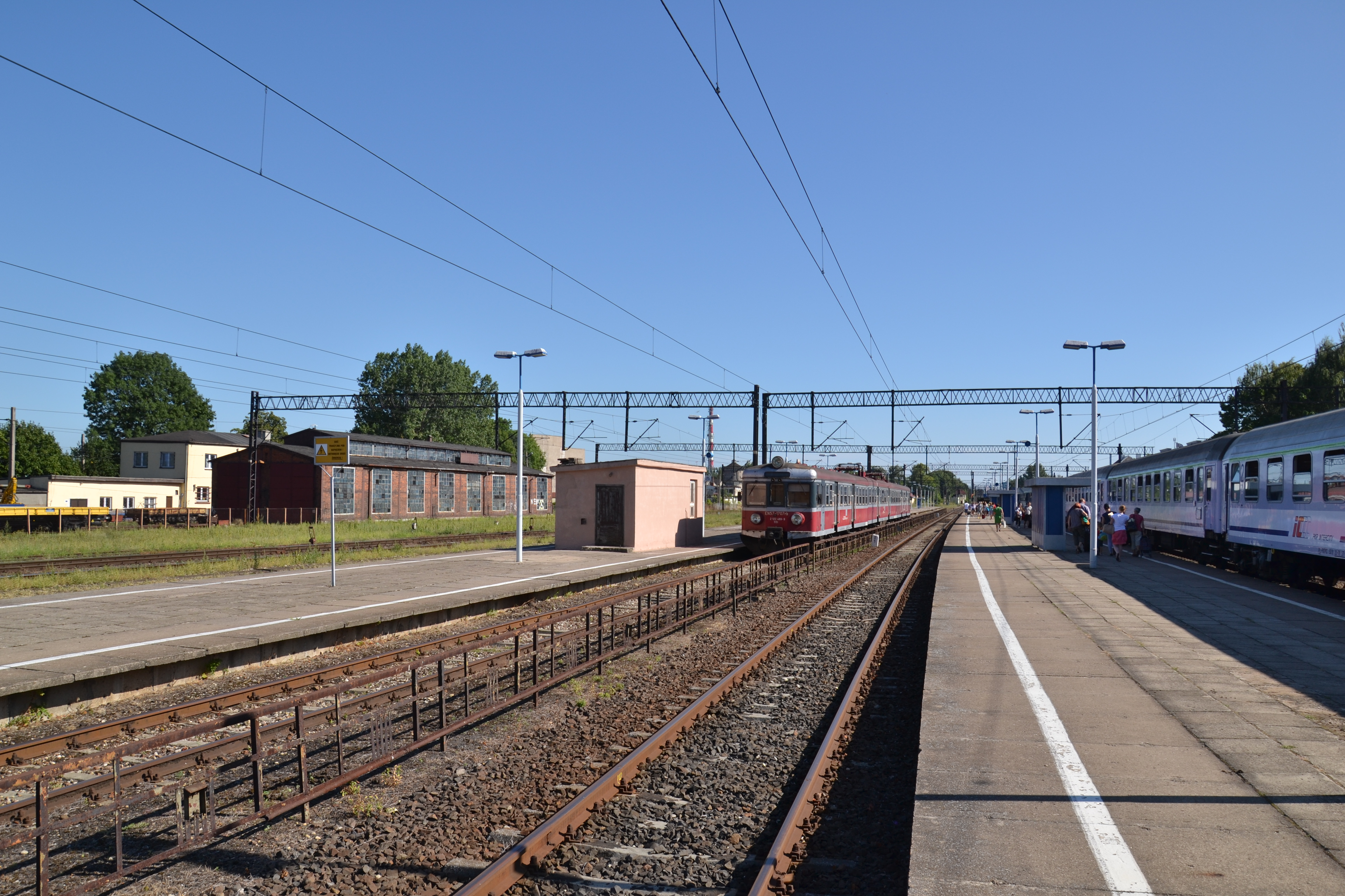 Dworzec kolejowy w Ełku This photo was taken during Railway Wikiexpedition 2015 set up by Wikimedia Polska Association in cooperation with Fundacja Grupy PKP. You can see all photographs in category Wikiekspedycja kolejowa 2015.